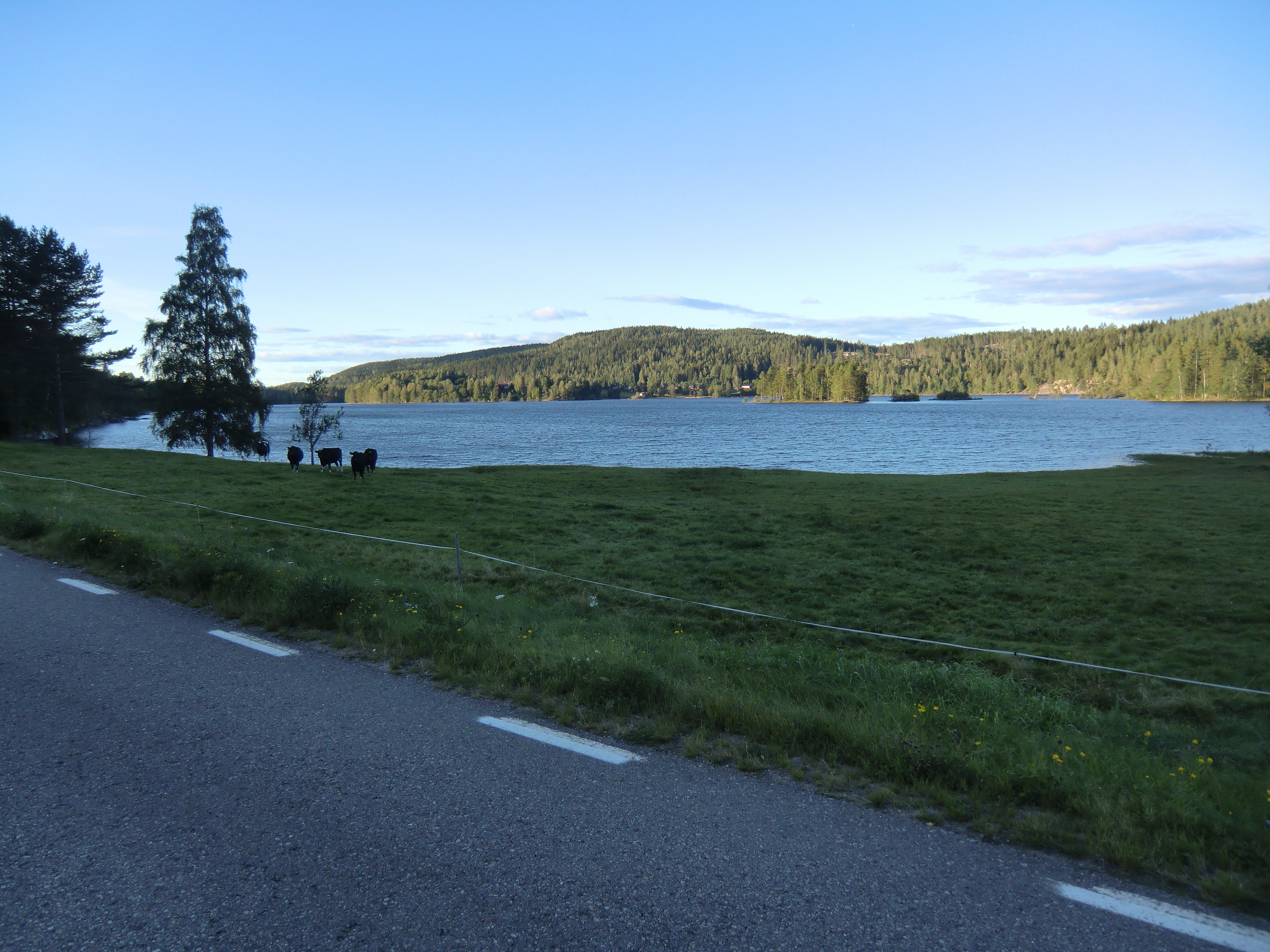 Lake Björkelången in Värmland, Sweden.